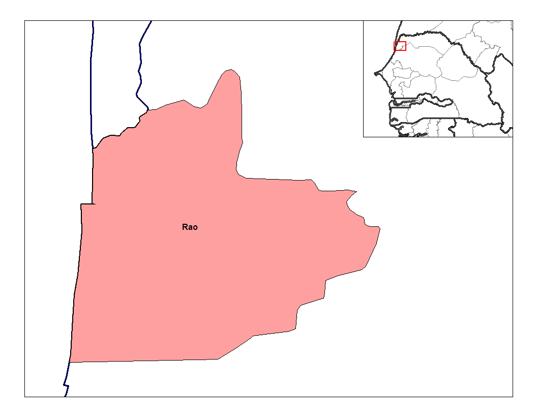 Map of the only arrondissement of Saint-Louis department in Senegal.